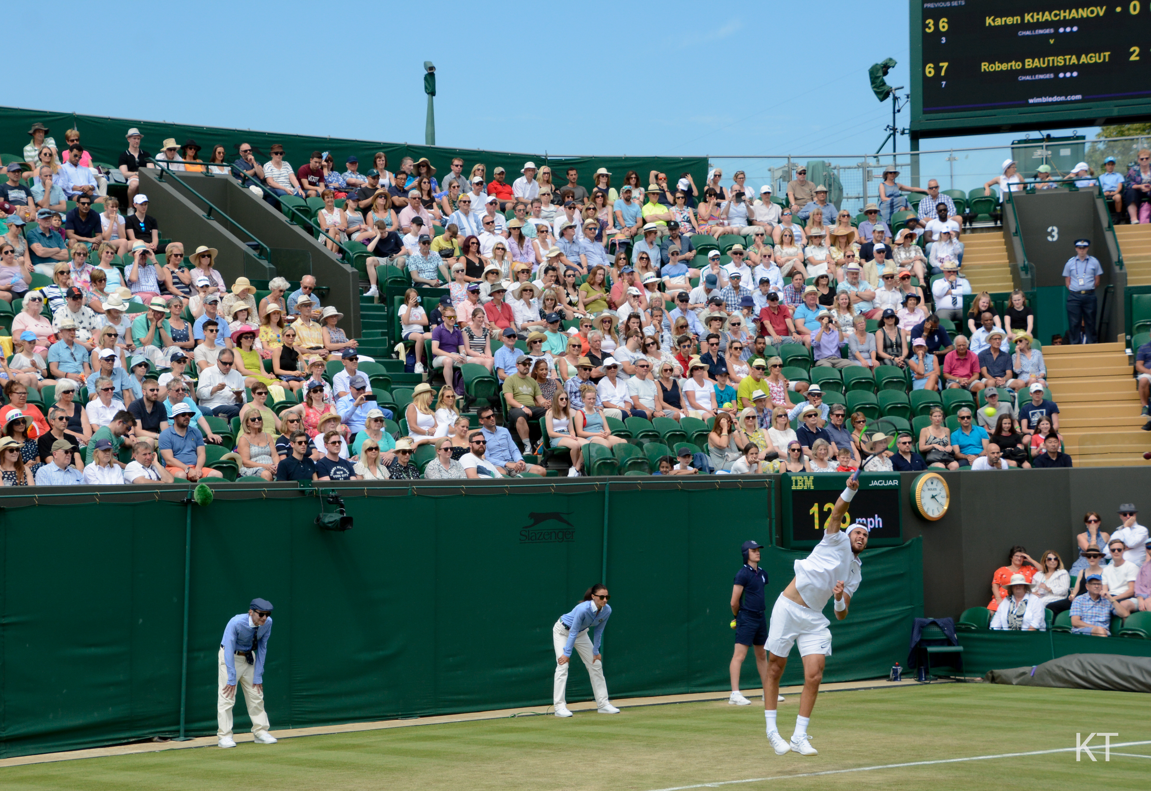 Court 2. Day 5 of Wimbledon 2019.